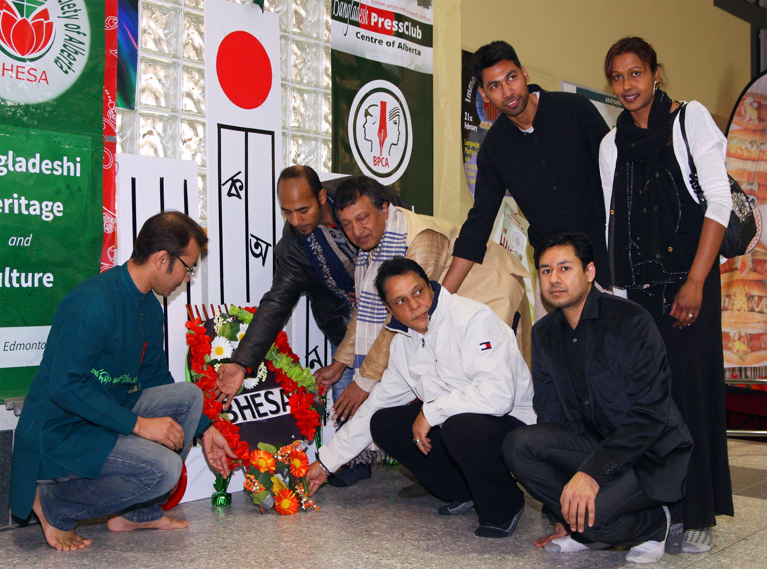 Photo Collage: "Group of people laying down flowers at BHESA's Ekushey February 2015", February 21, 2015 by Andy Strohkirch